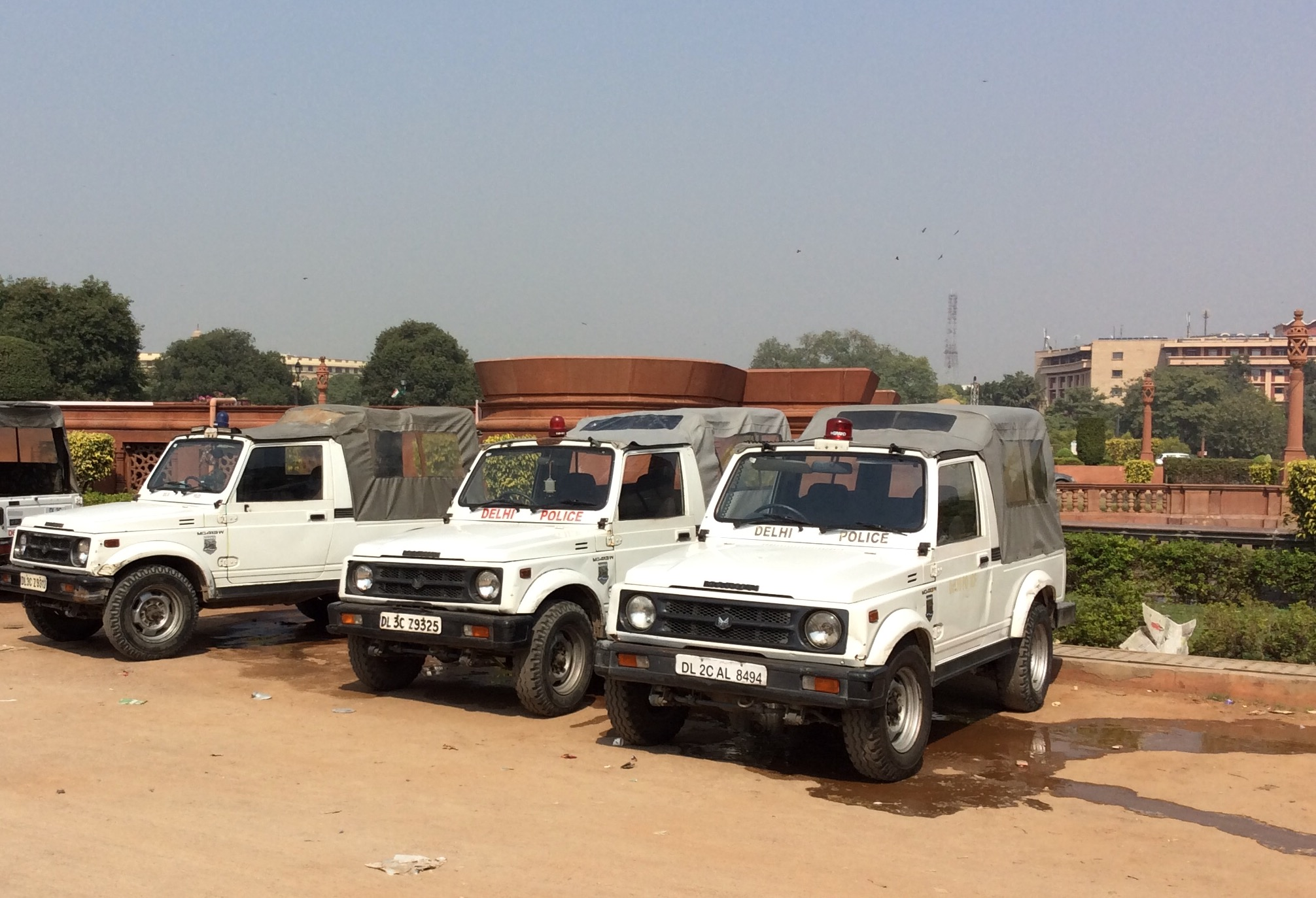 India - Nova Delhi, Índia